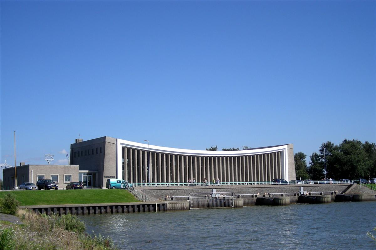 J.L. Hooglandgemaal bij Stavoren Its number in the list of 89 proposed monuments is: 2013-04 For more information see Dutch WIkipedia: 89 topmonumenten uit de periode 1959-1965